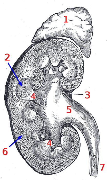 1) Adrenal gland 2) Pyramid 3) Renal hilum 4) Papilla 5) Renal pelvis 6) Renal cortex (the medulla is pretty much everything that isn't cortex) 7) Ureter